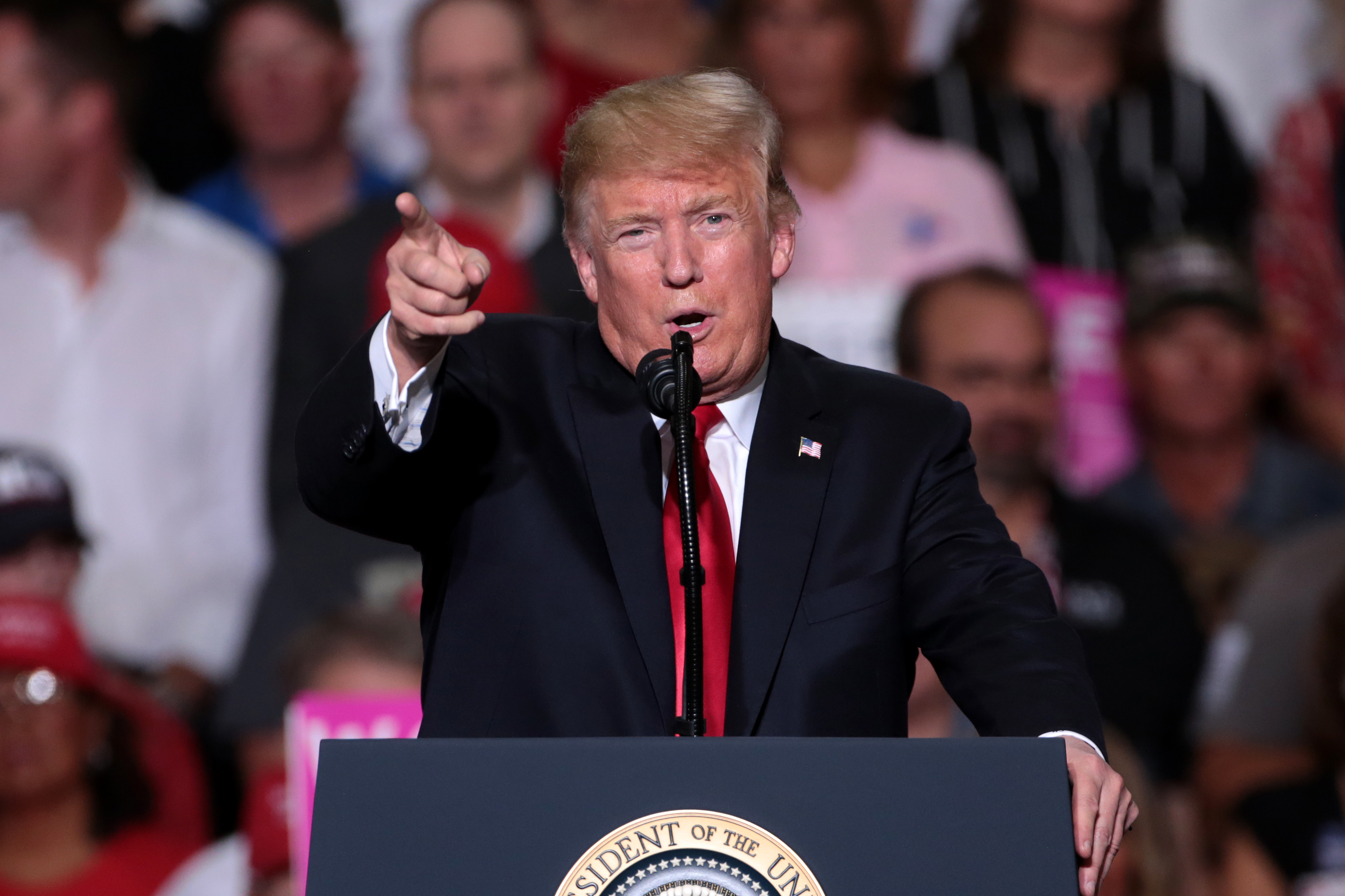 President of the United States Donald Trump speaking with supporters at a Make America Great Again campaign rally at International Air Response Hangar at Phoenix-Mesa Gateway Airport in Mesa, Arizona.